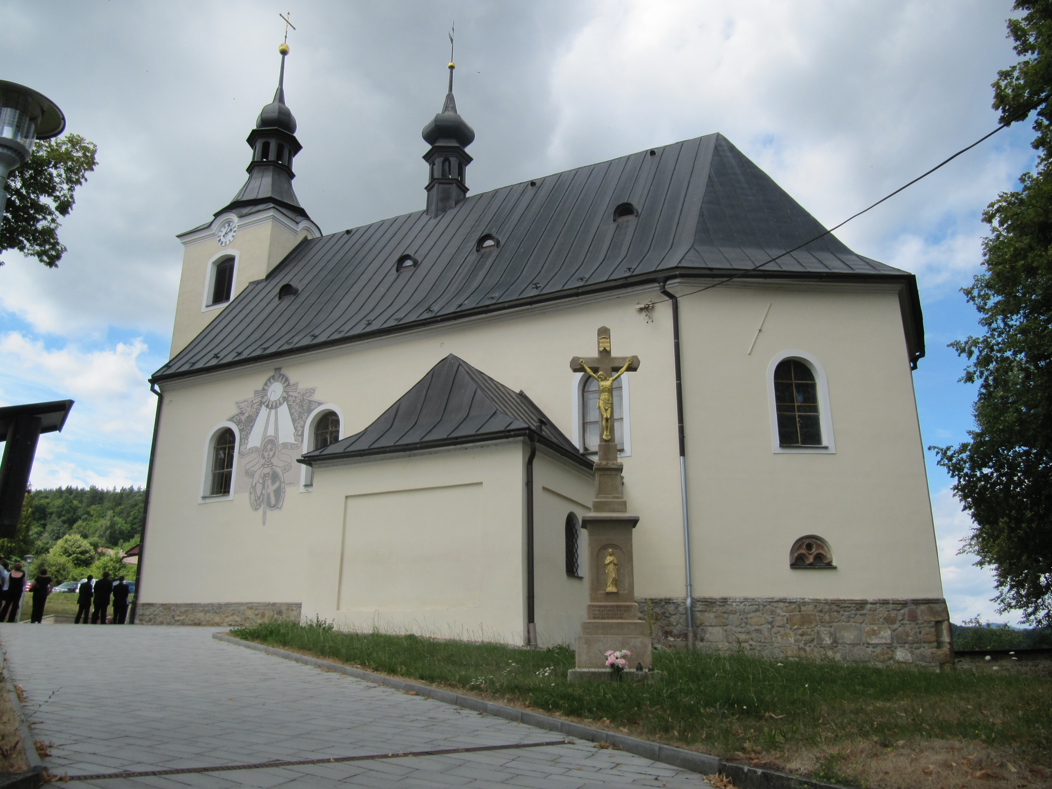 Vlachovice, Zlín District, Czech Republic.